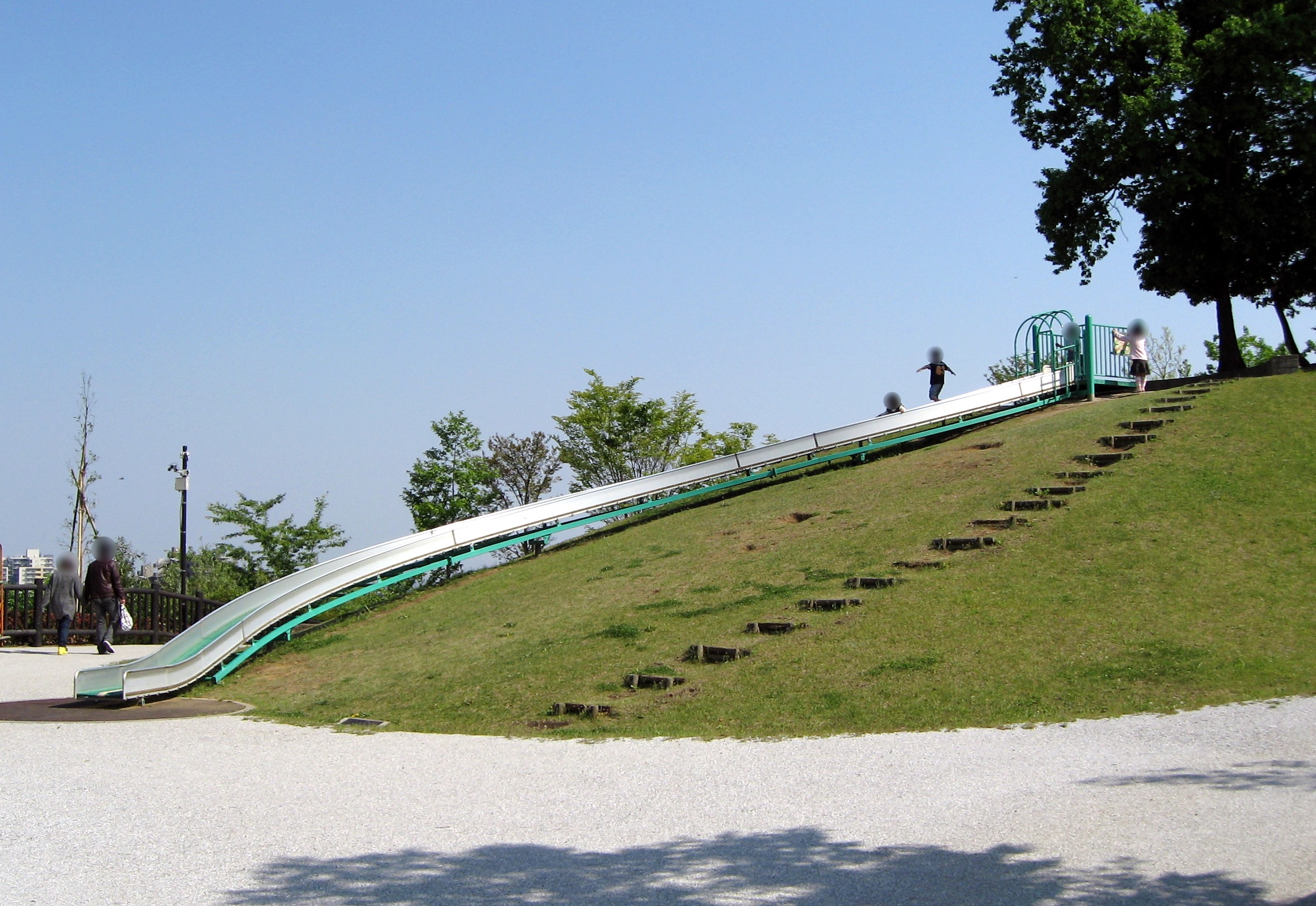 Miharashi Ryokuchi Park in Inagi, Tokyo, Japan.